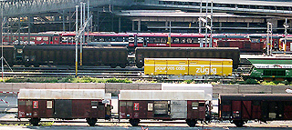 Goods station and marshalling yard at Lucerne, Switzerland